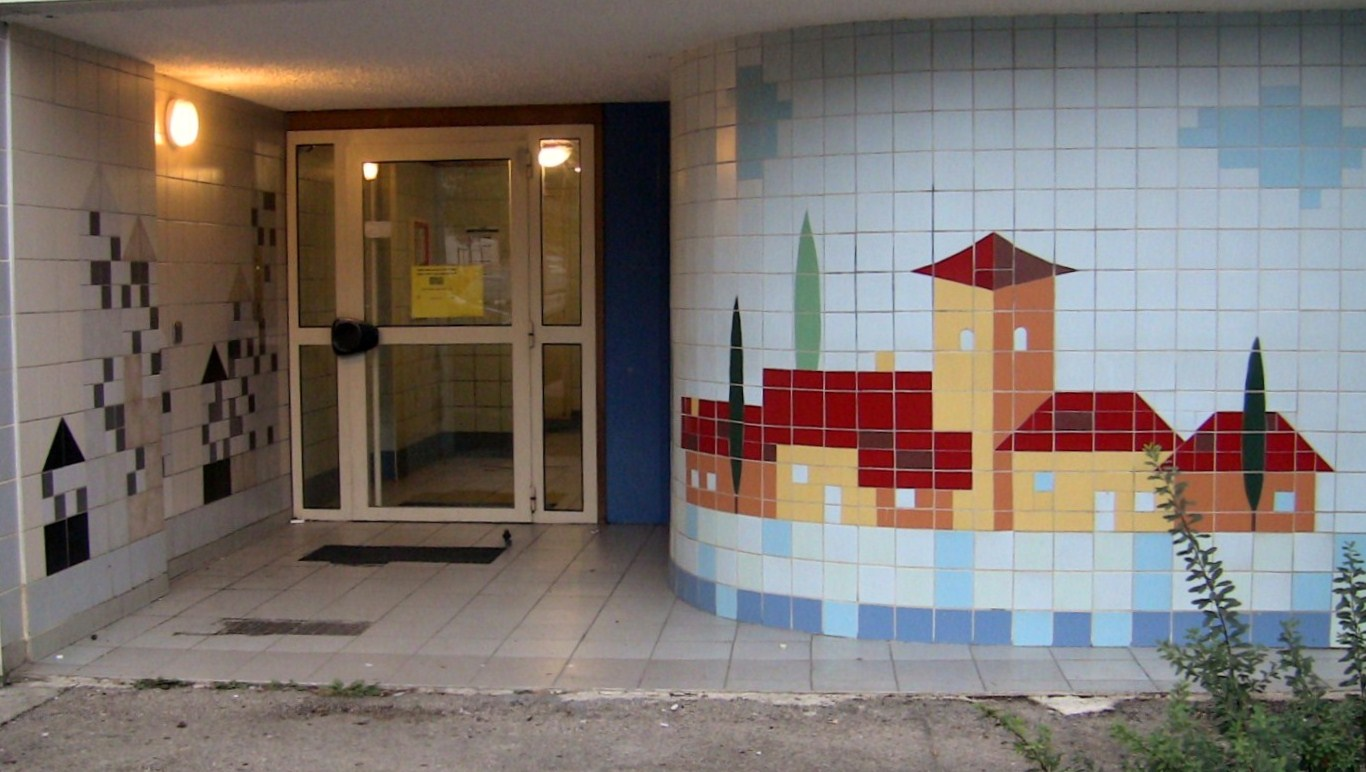 An tiled wall mural in the hall of a building located in the area of Planoise, Besançon — Doubs, France.